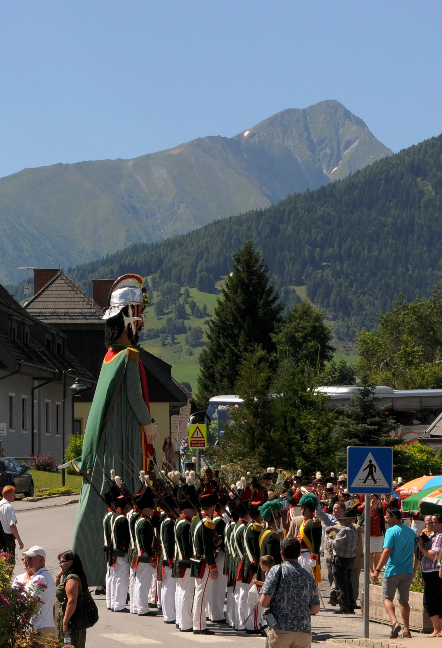 Samson festival, Krakaudorf, Styria, Austria with Preber